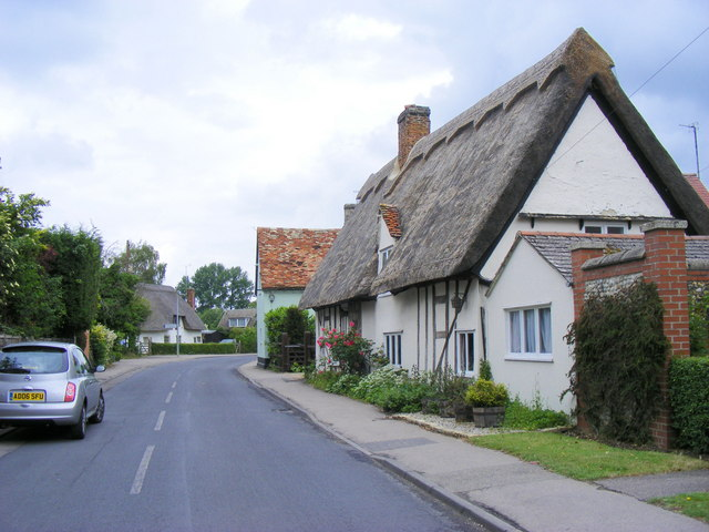 Looking north along the high street, Great Abington The delightful twin villages of Great and Little Abington have a wealth of thatched timber framed cottages. Each village having its own ancient church, both confusingly dedicated to St Mary. The river Granta separates the two communities and was spanned by a rather severe hump-backed bridge. It was bombed during WW2 and subsequently replaced by a level one